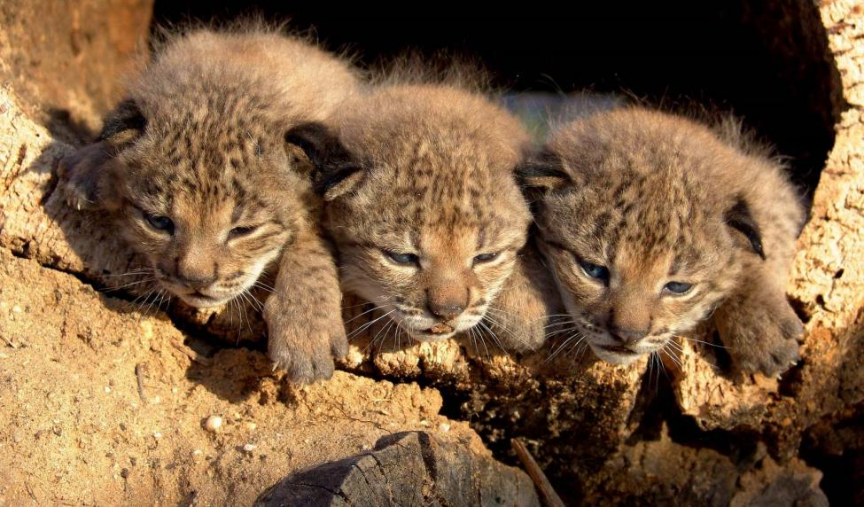 Iberian Lynx cubs who born in the Program Ex-situ Conservation in 2005